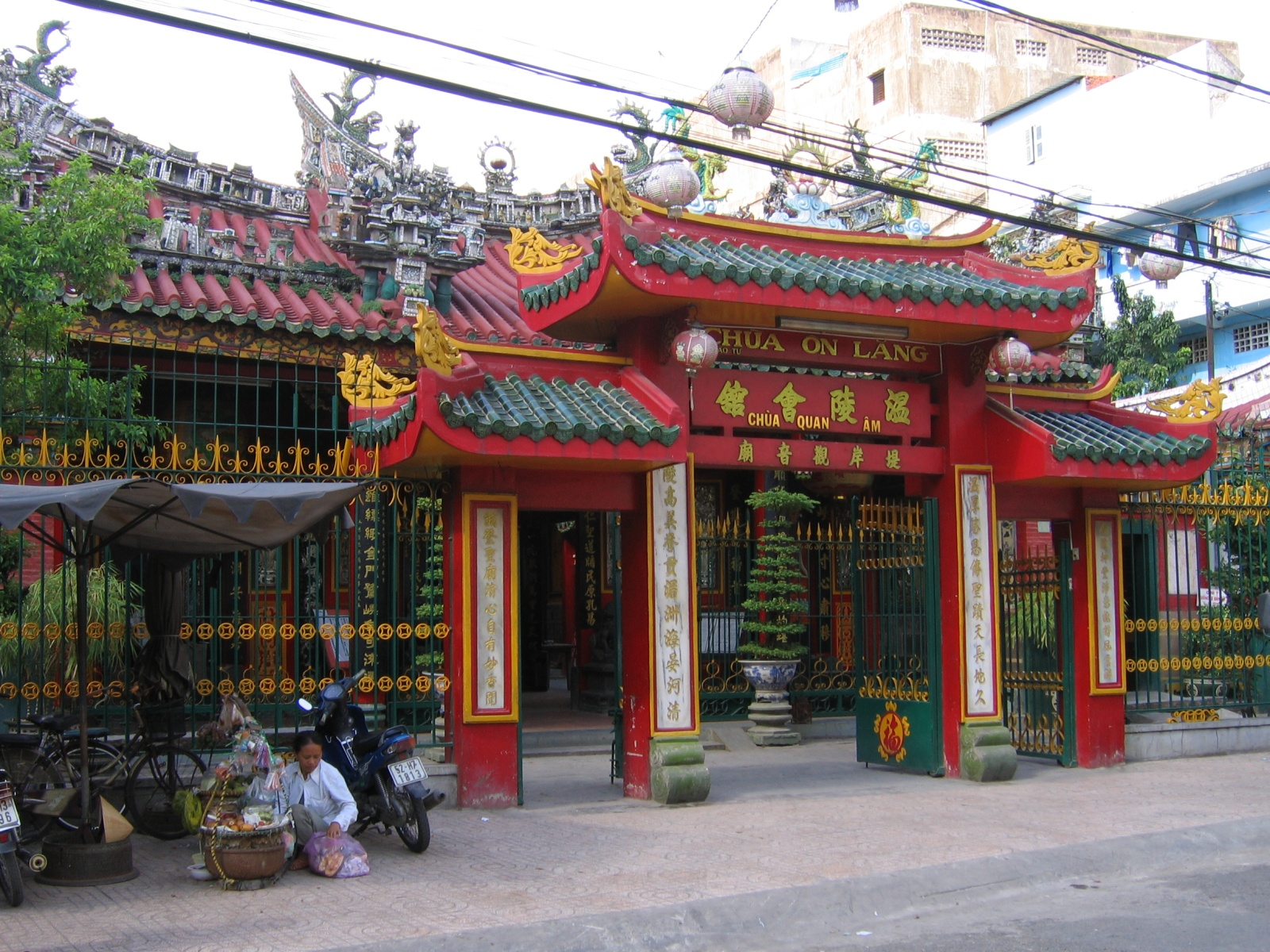 Quan Am Pagoda in Cho Lon, Ho Chi Minh City, Vietnam.